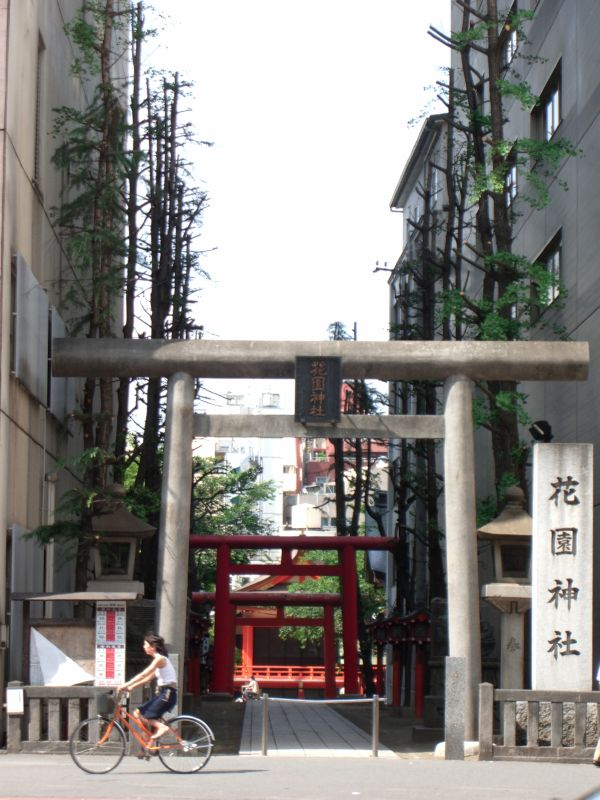 Hanazono Shrine in Shinjuku, Tokyo. A prayer here is said to bring luck to your business.